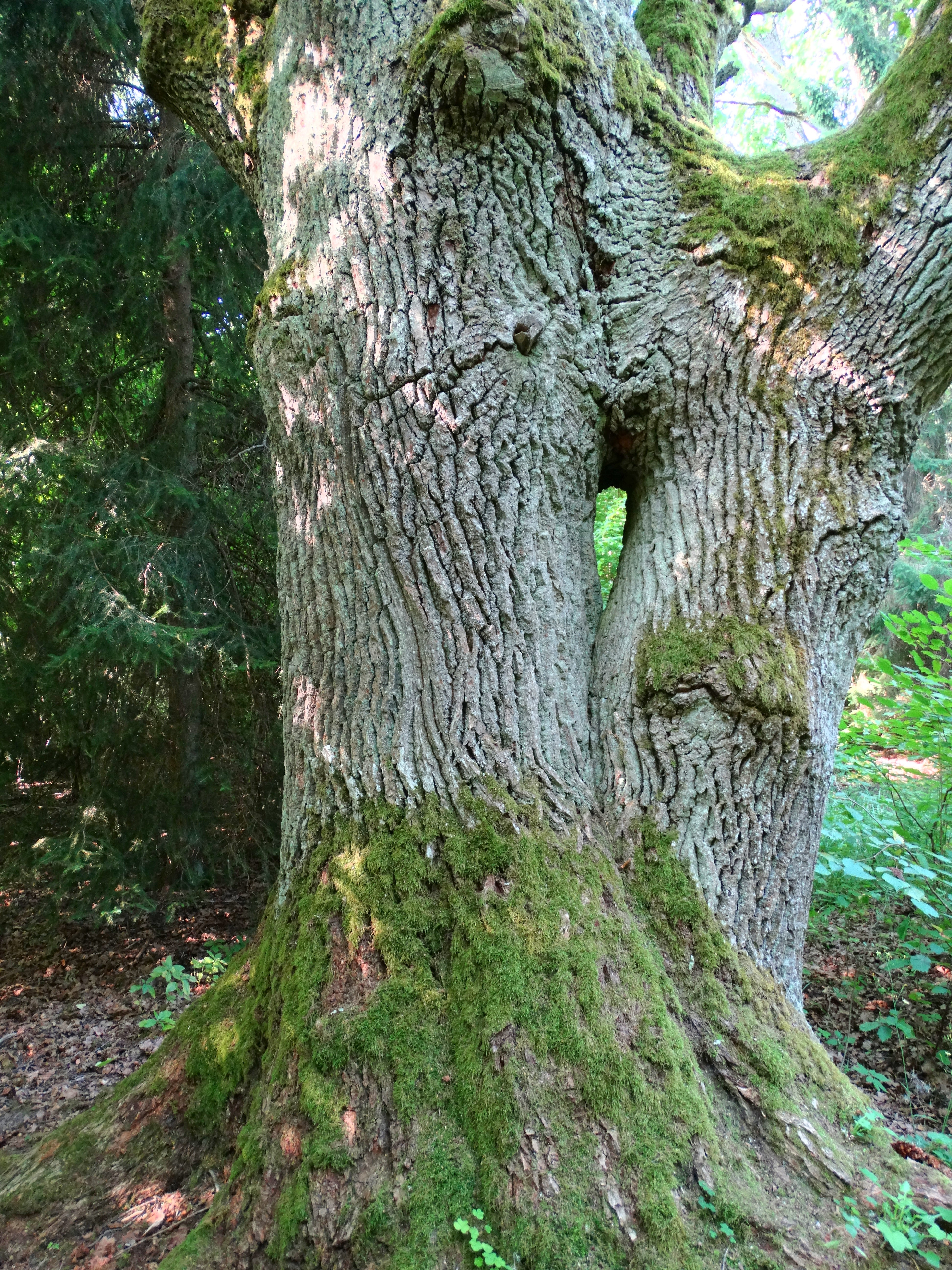 Reibiniškės forest oak, Joniškis District, Lithuania